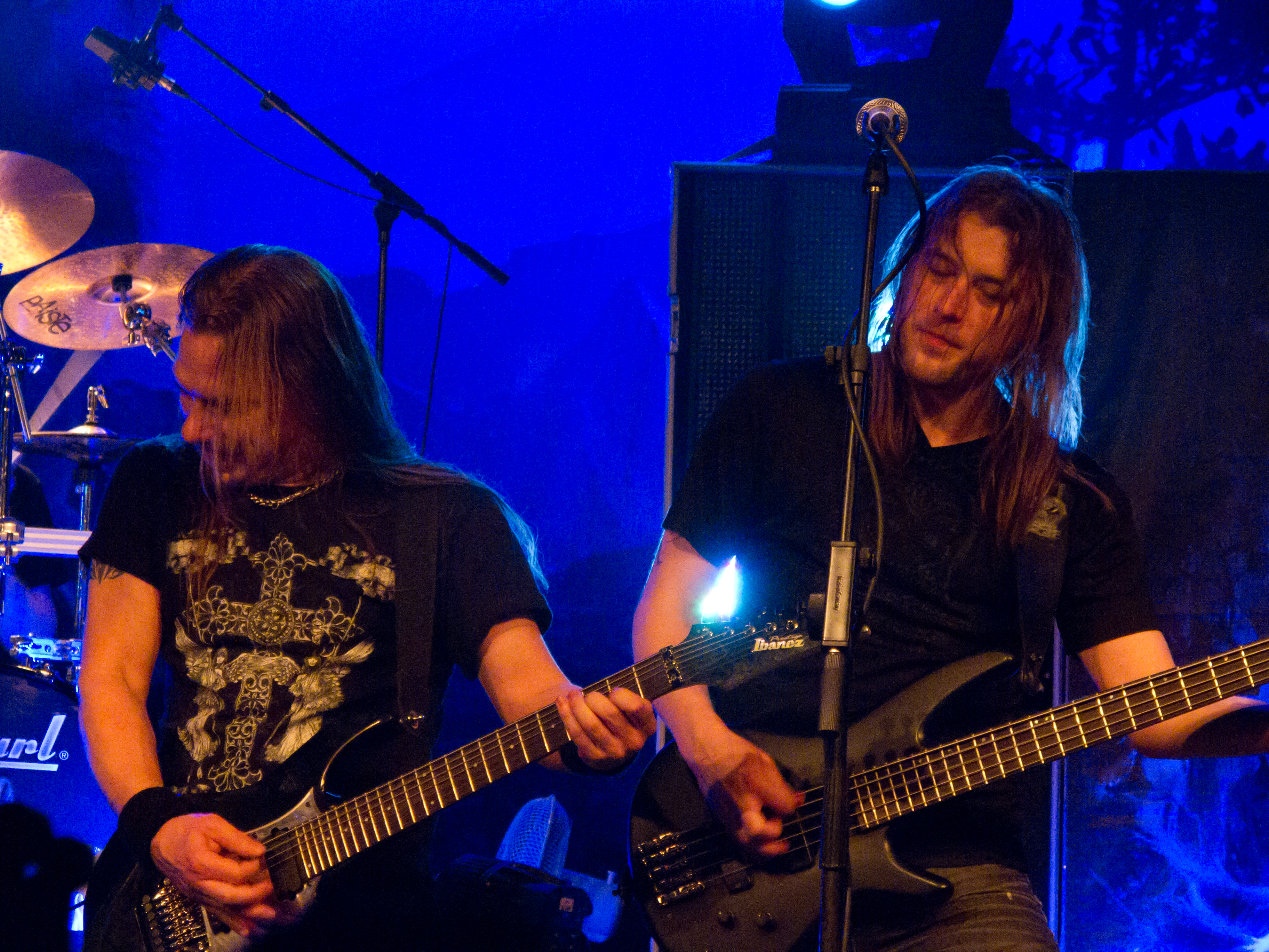 Elias Viljanen and Marko Paasikoski (Sonata Arctica) in concert.